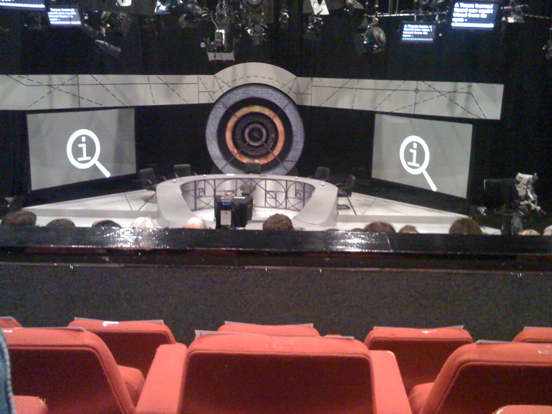 The empty set of the BBC television panel show QI in 2009 Please note: Using this image might affect the rights of the BBC. See similar discussion at Commons:Deletion requests/Image:HIGNFY set empty.jpg